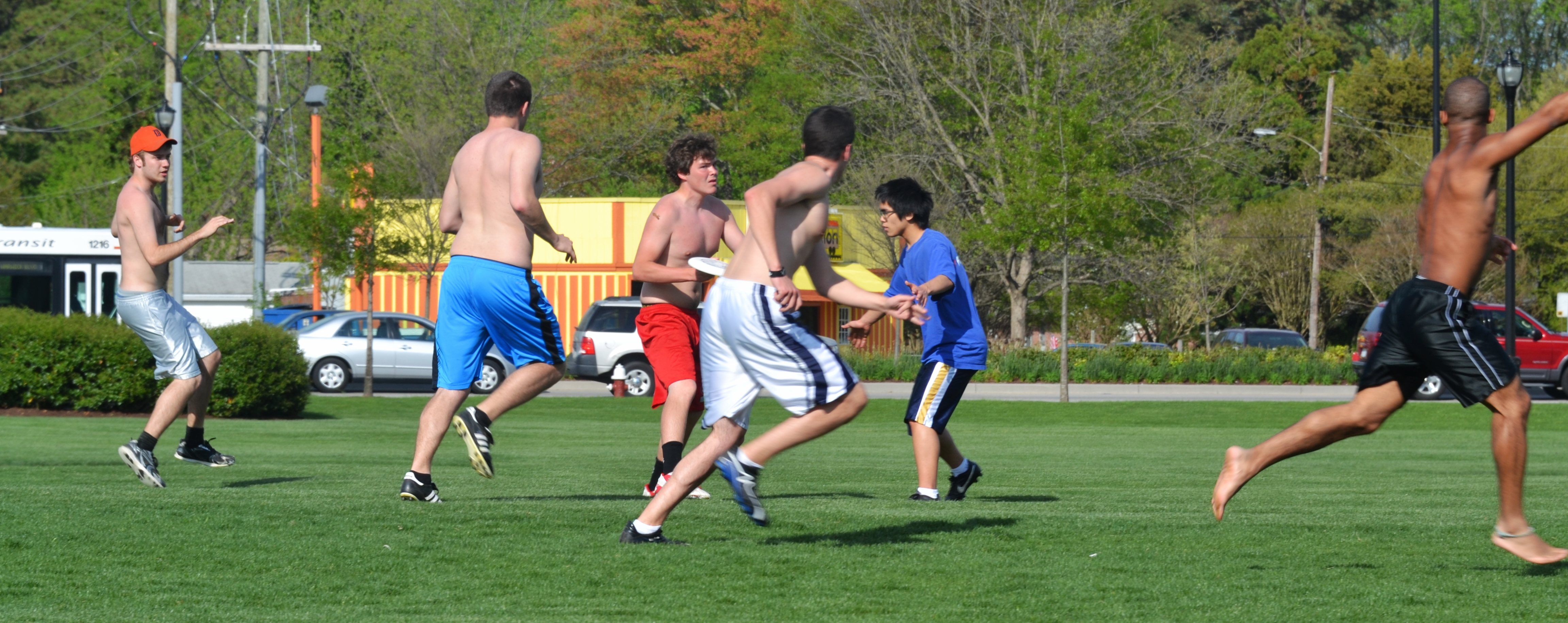 During a Break in the game, the guy in the orange hat and the guy in the orange shorts, came buy to say hello to the dogs, they had met them before. I asked if they had a Frisbee Football league and they told me they are trying to get a Club Started and they have a lot of guys interested. They play in the field in front of The Ferguson - it is large enough that they could have up to six games going at the same time if they wanted.